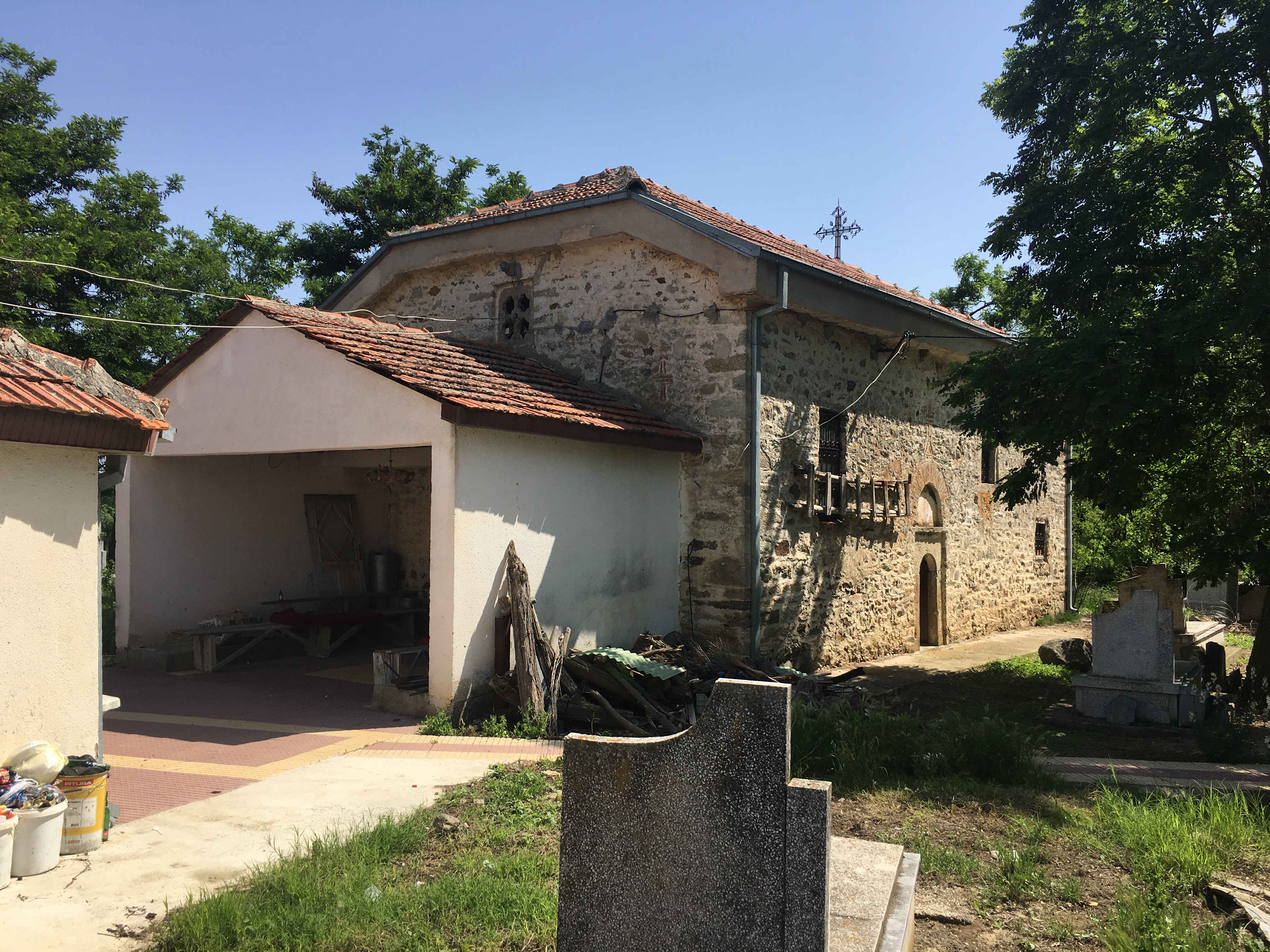 St. Nicholas Church in the village of Trn